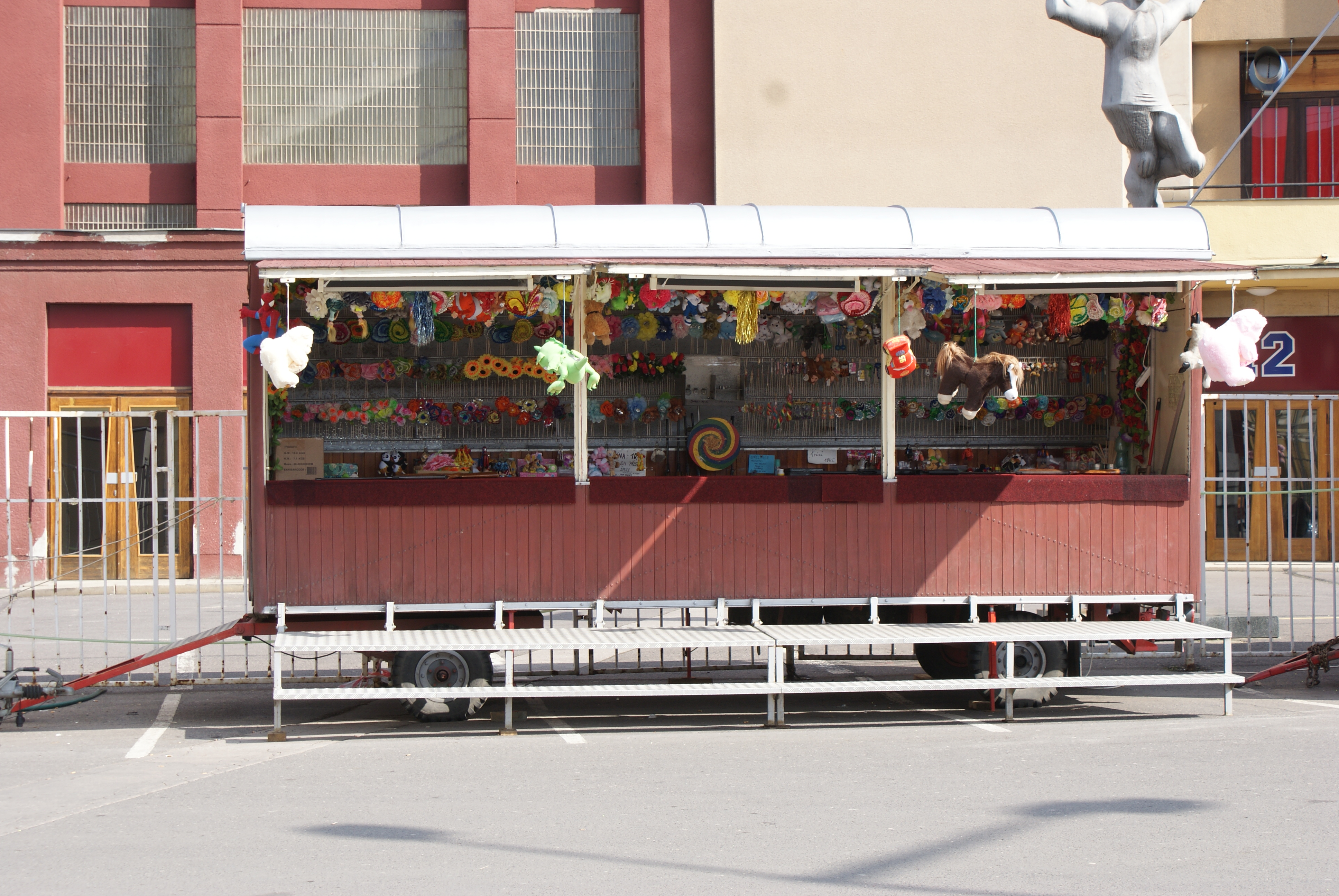 Shooting stall at the Matthias Fair in Prague Česky: Střelnice na Matějské pouti v Praze